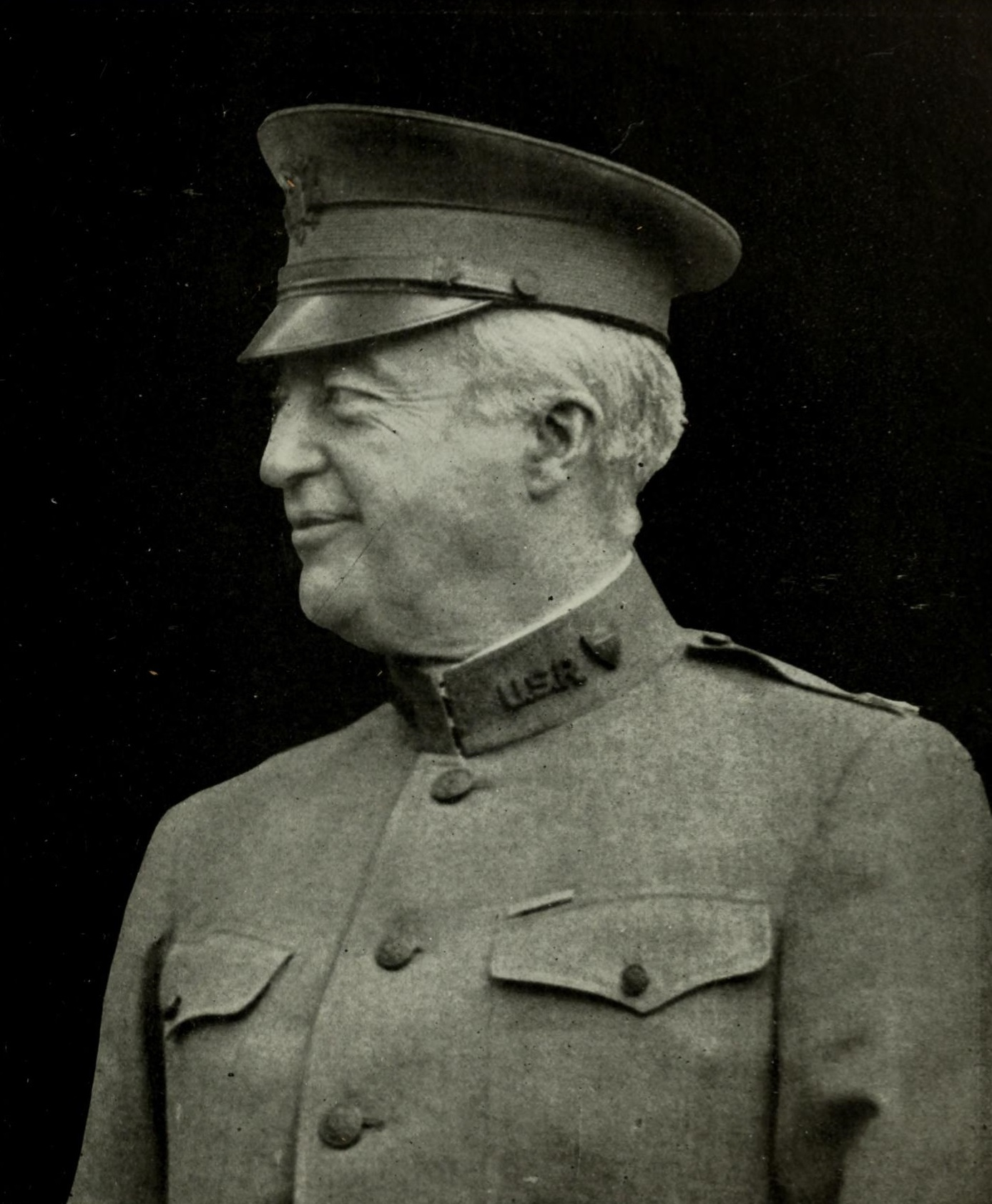 Portrait of Augustus Peabody Gardner